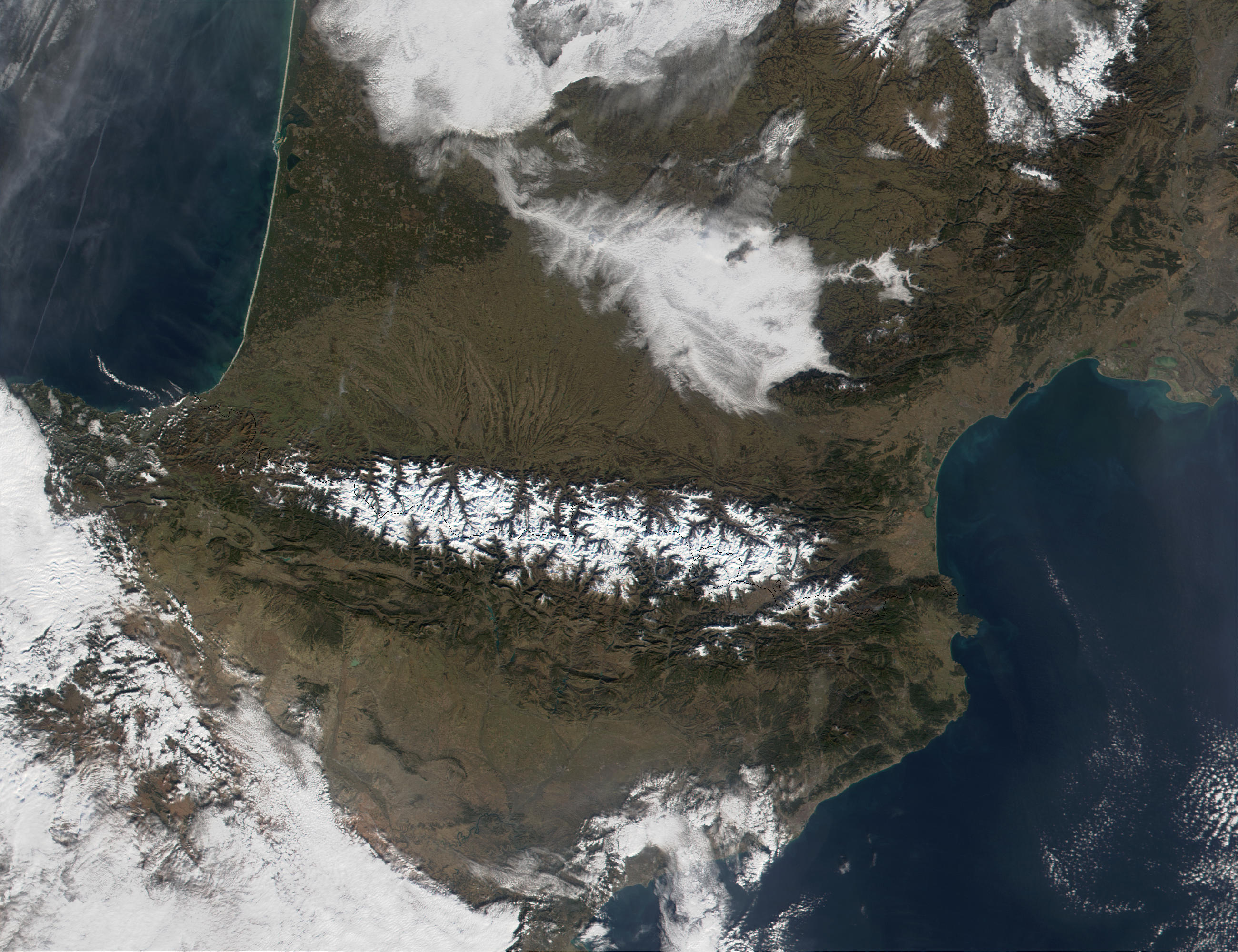 The Pyrenees Mountains (center) act as a natural border between France to the north and Spain to the south. In this MODIS image from January 18, 2002, they are covered in snow (bright red in the false-color image.) At upper left, contrails are visible over the Bay of Biscay, which, along the French shores, sport miles and miles of white sandy beaches.